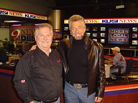 Producer/Writer Stephen J. Cannell With Phil Konstantin